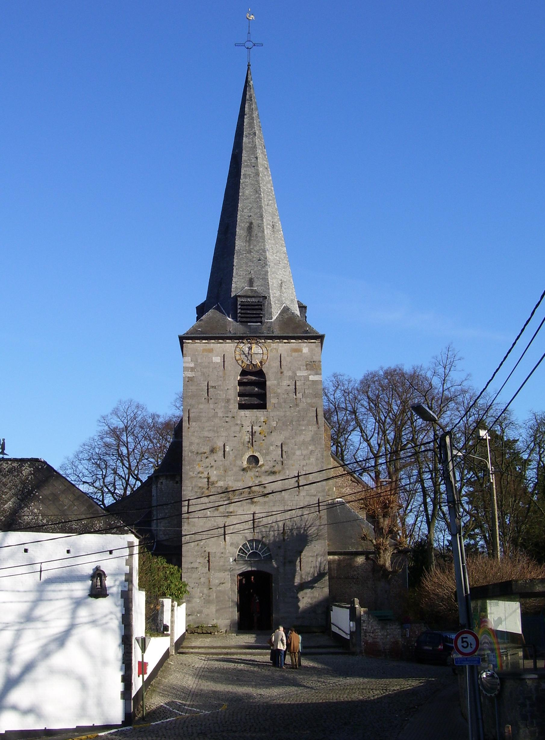 Saint Etienne Church in Court-Saint-Etienne, Belgium